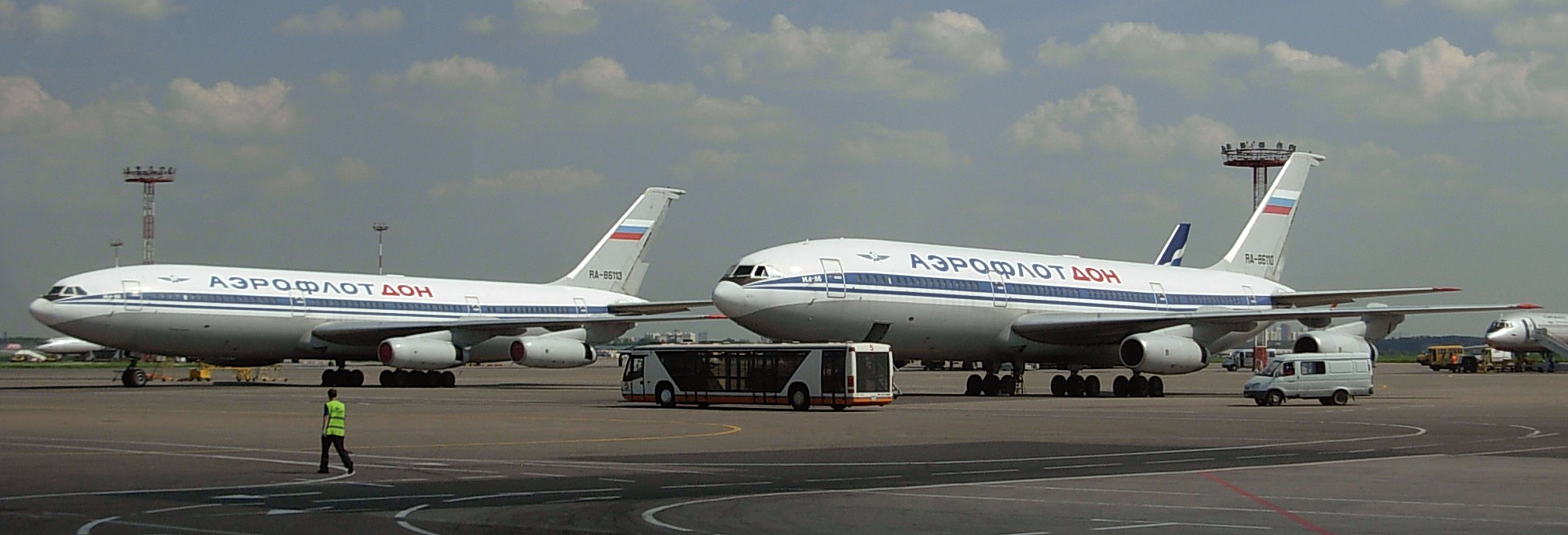 Ilushyn-86 of Aeroflot-Don at Sheremyetevo-1 airport